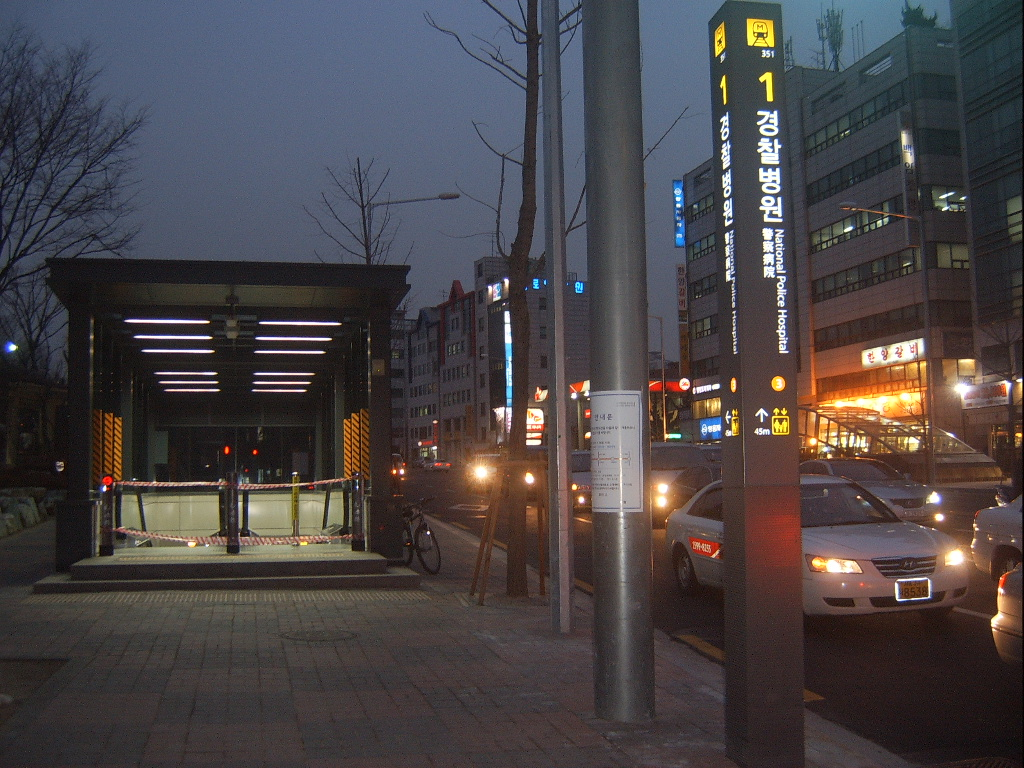 Seoul subway national police hospital station exit 1